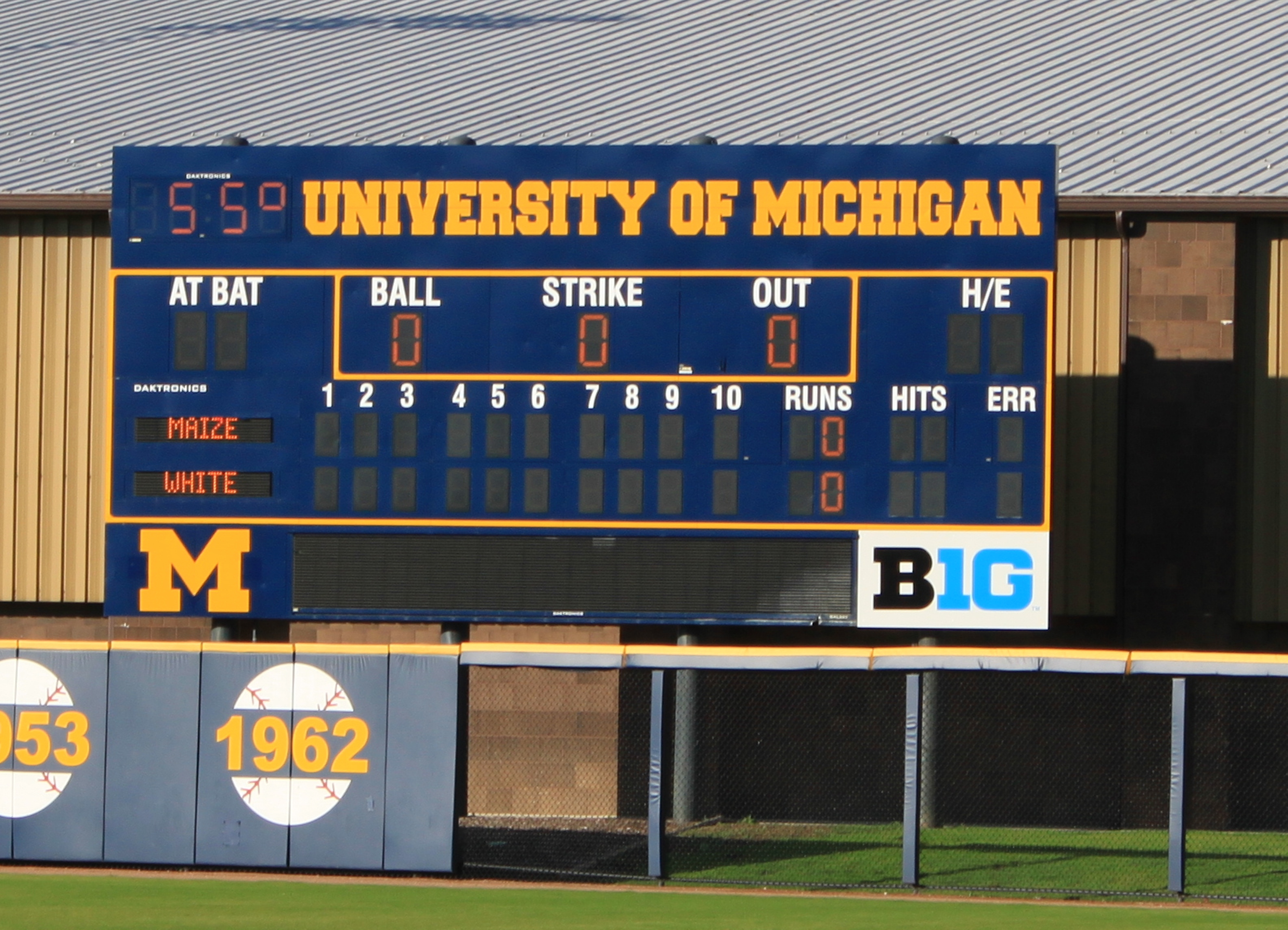 Baseball scoreboard at Ray Fisher Stadium, Unversity of Michigan campus, Ann Arbor, Michigan